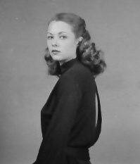 Headshot of Theresa Russell for 1976's The Last Tycoon.